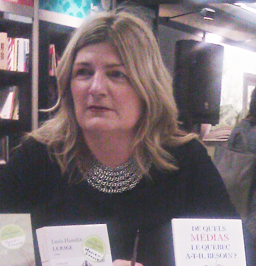 Marie-France Bazzo photographed in Montreal, Quebec, Canada at the Salon du livre de Montréal 2016.